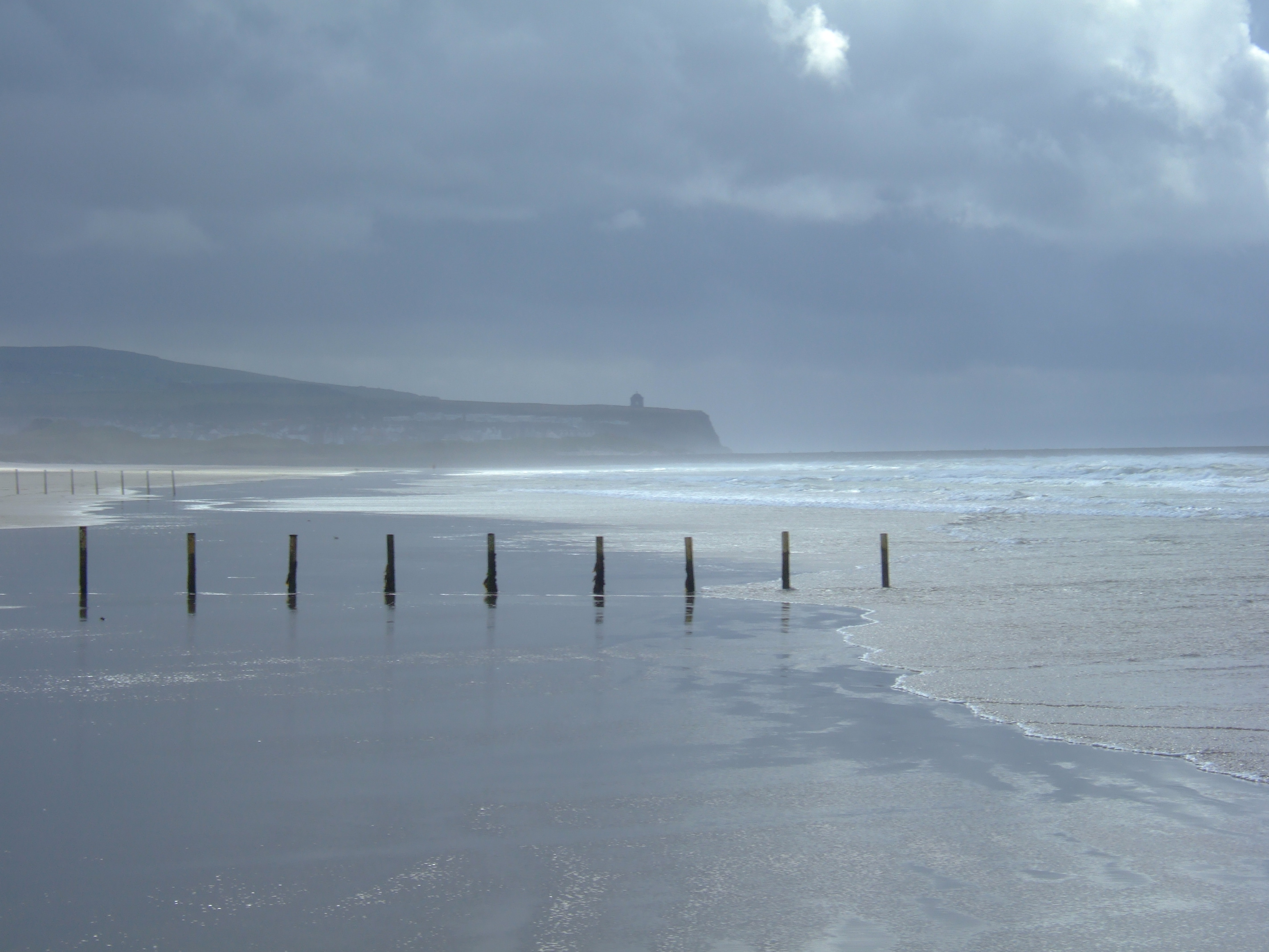 The Strand, looking west to the Barmouth and Mussenden Temple beyond. Portstewart, County Londonderry, Northern Ireland.